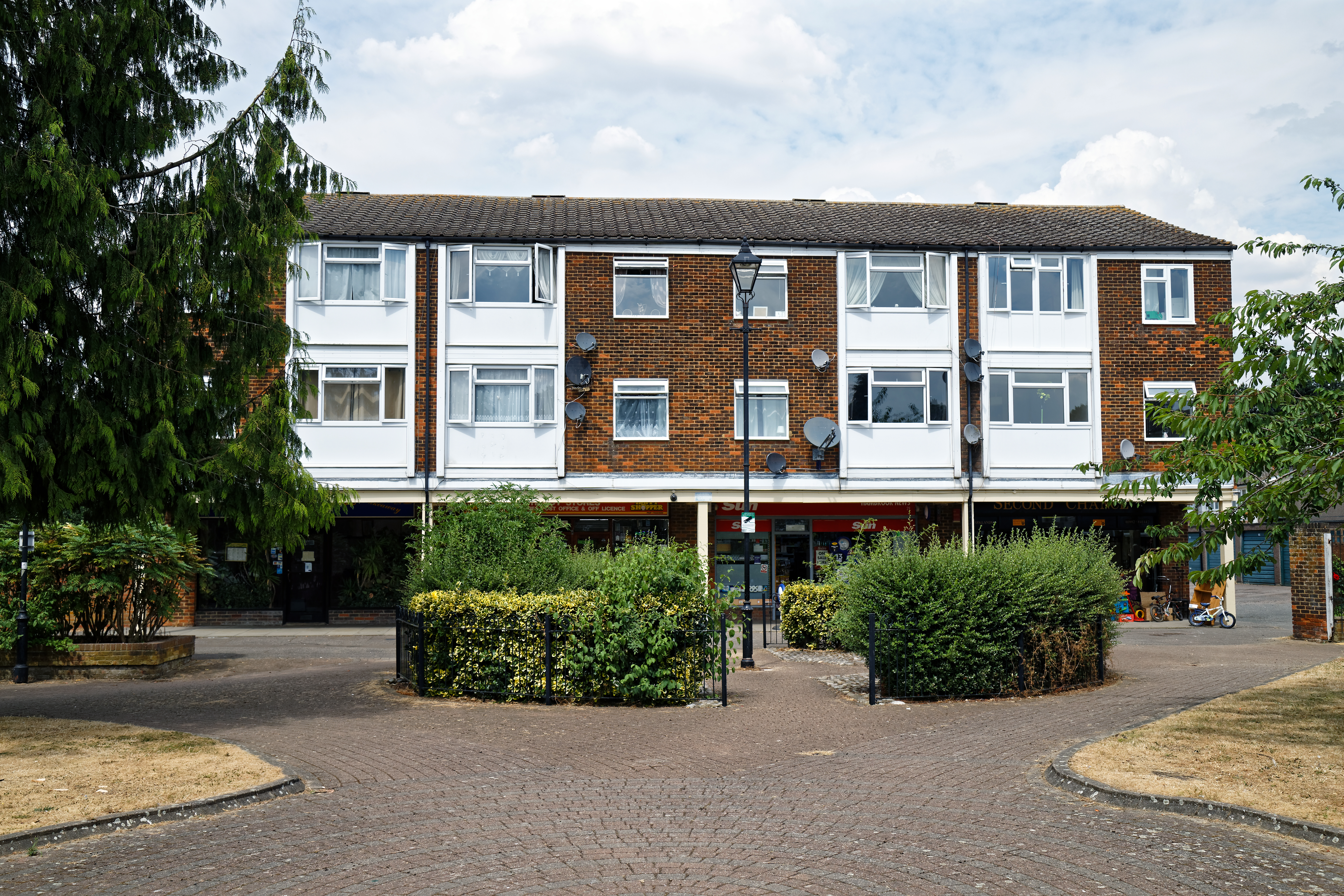 A shop parade next to a small park, with (left to right) an Indian take-away, a post office with 'Happy Shopper' off licence, a newsagents, and a second-hand goods seller, off Coopersale Common Road in the village of Coopersale and the civil parish of Epping, Essex, England.Camera: Canon EOS 6D Mark II with Canon EF 24-105mm F4L IS USM lens.Software: File lens-corrected, optimized, perhaps cropped, with DxO PhotoLab, and likely further optimized with Adobe Photoshop CS2.